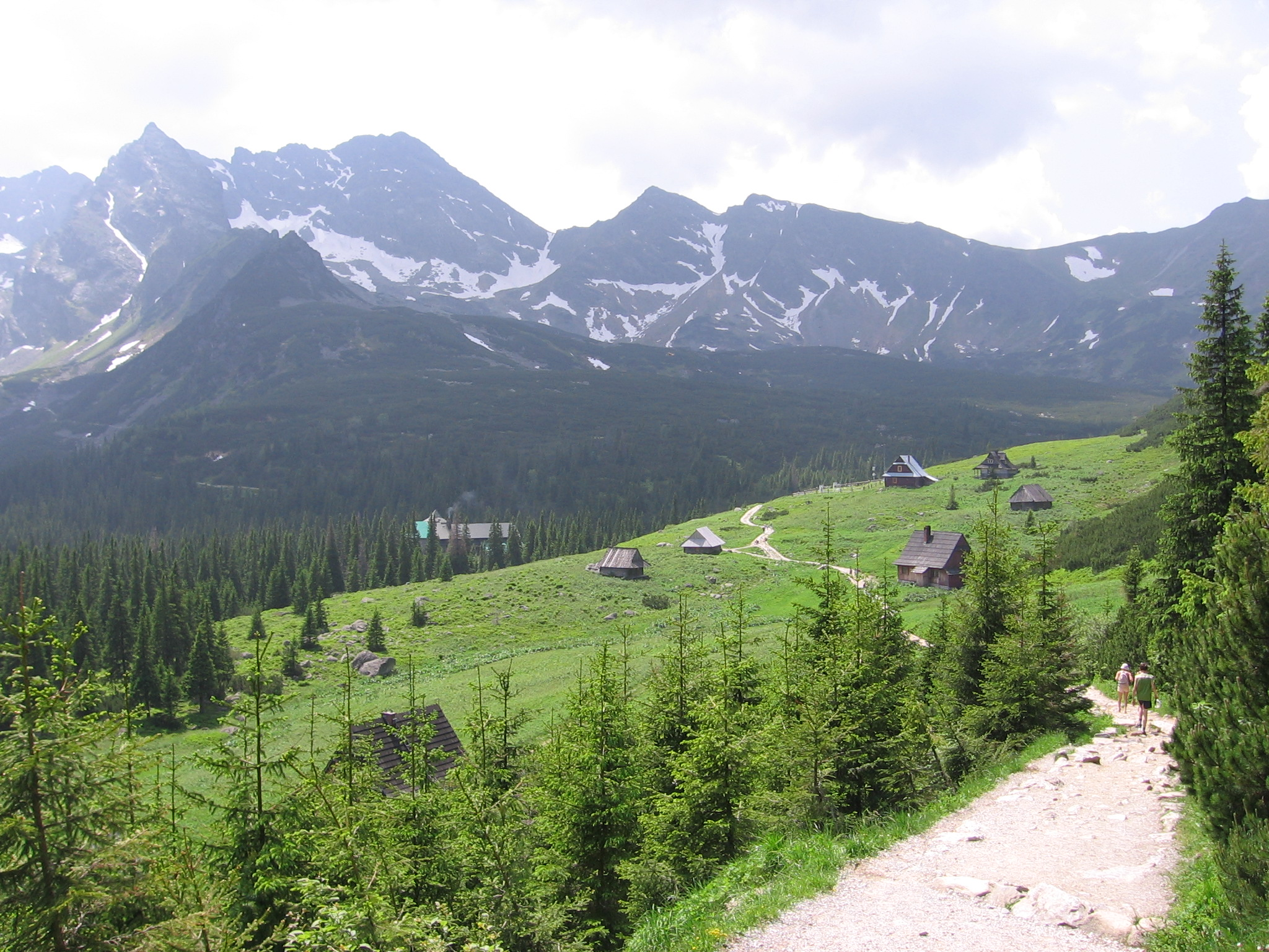 Hala Gąsienicowa. View from tourist trail Kuźnice - Hala gąsienicowa. tatras, Poland